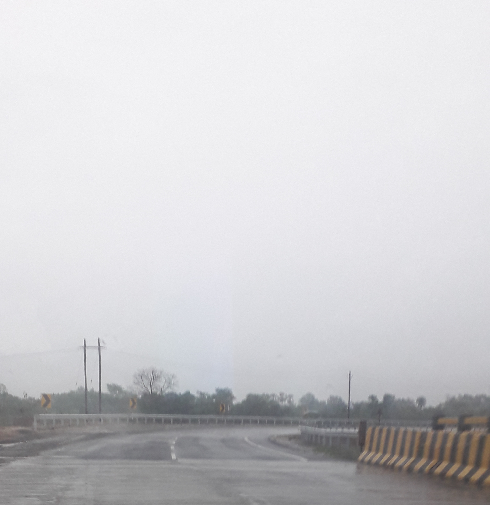 Bkhivtzyfig